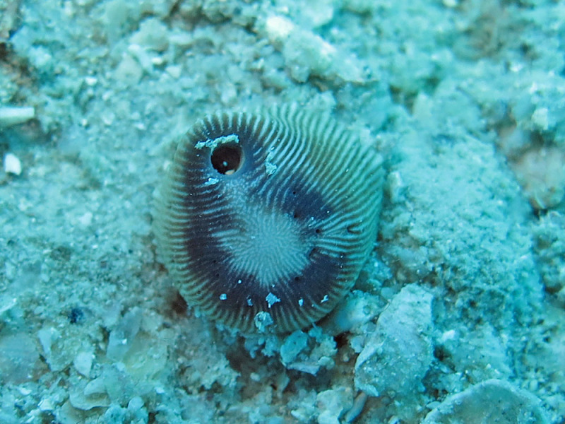 A sipunculan worm, Aspidosiphon muelleri, is an obligate commensal of Heterocyathus aequicostatus. It can move the coral by extending its proboscis through a hole in the base of the coral.